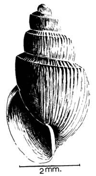 Drawing of apertural view of the shell of Bulinus forskalii.